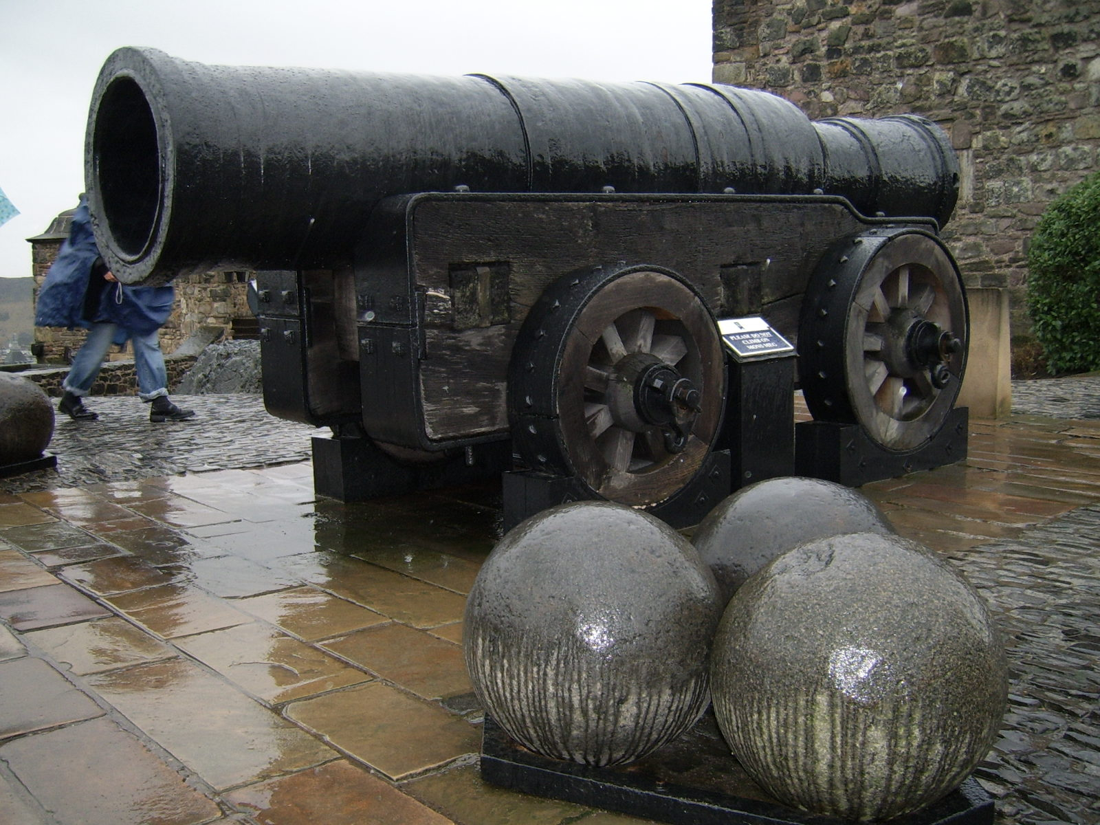 Photo of Mons Meg